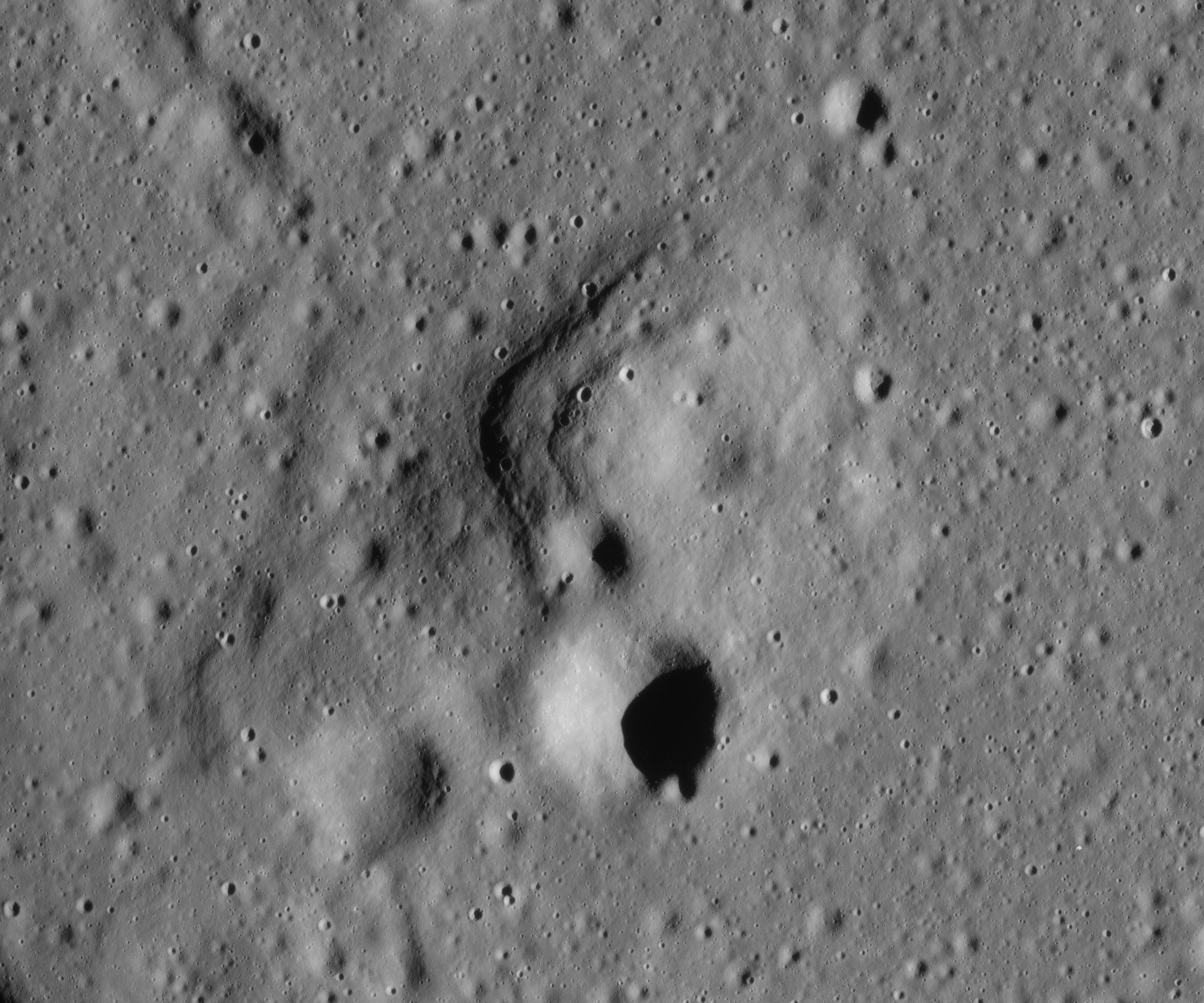 The North Complex hills, north of the Apollo 15 landing site, Hadley–Apennine region, on the moon. Sun elevation 14 deg., spacecraft altitude 101 km.